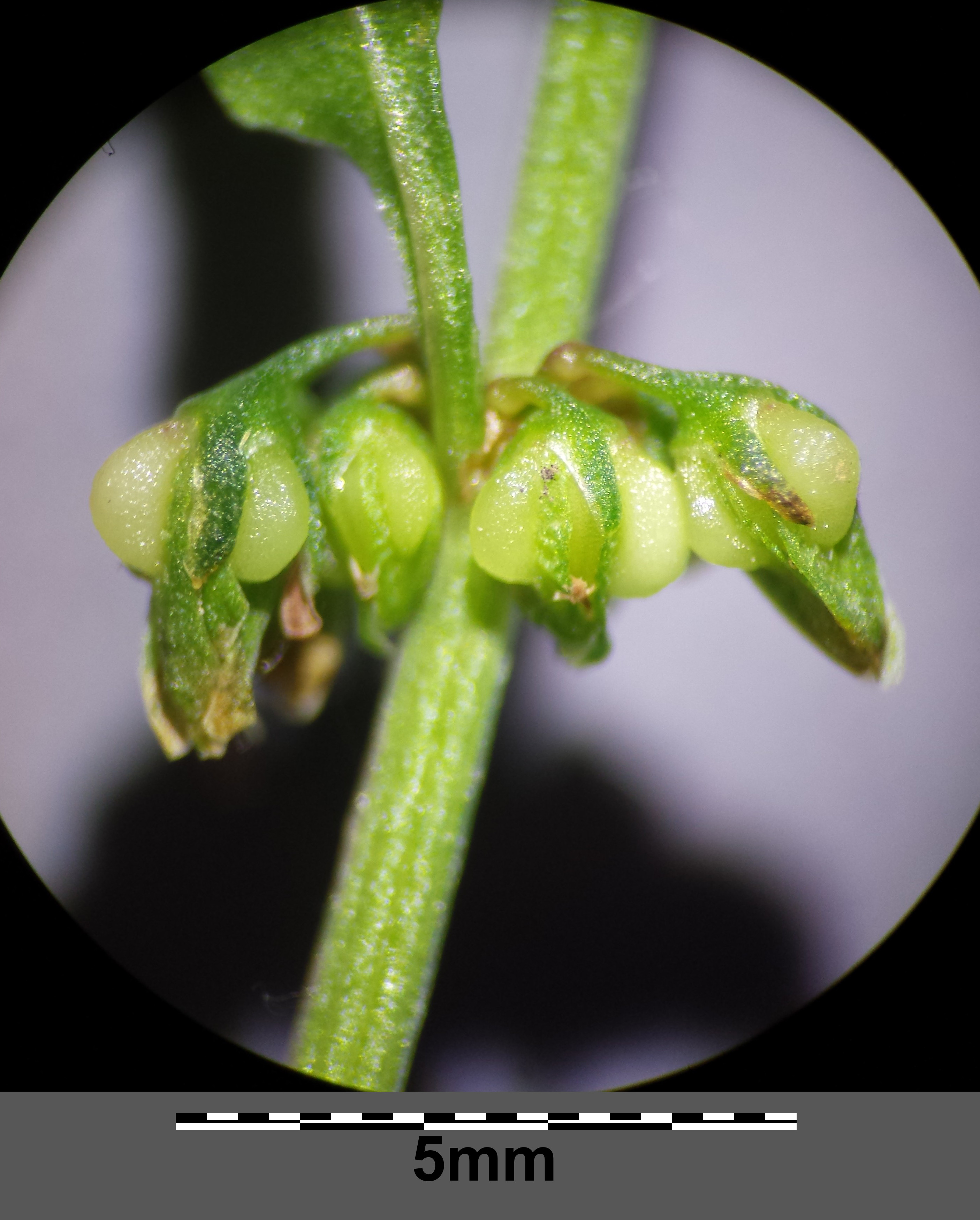 Verticillaster Taxonym: Rumex conglomeratus ss Fischer et al. EfÖLS 2008 ISBN 978-3-85474-187-9 Location: Donaupark, Vienna-Donaustadt - ca. 160 m a.s.l. Habitat: nearshore